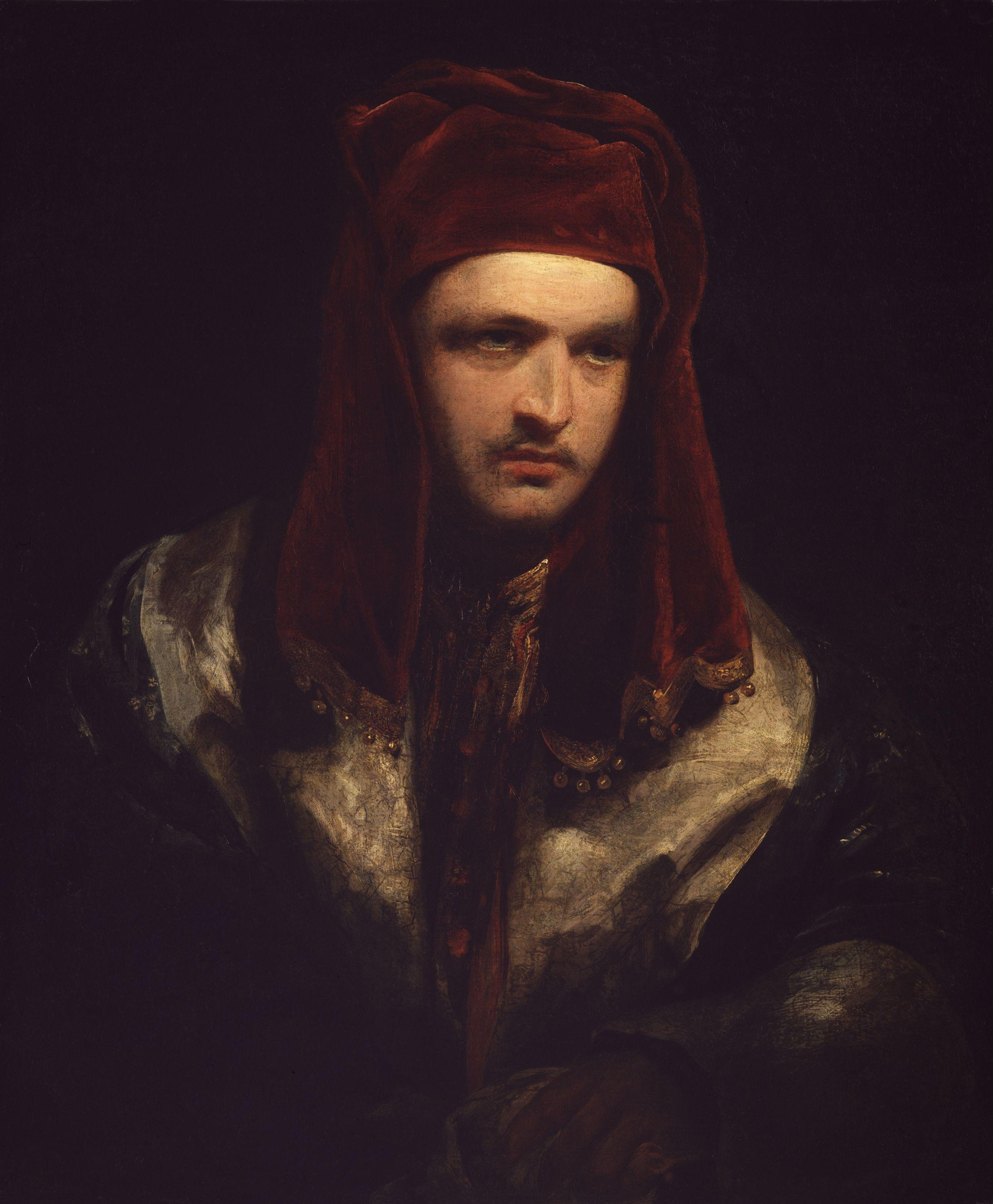 William Charles Macready, by John Jackson (died 1831). An actor. All images in this batch have been confirmed as author died before 1939 according to the official death date listed by the NPG.